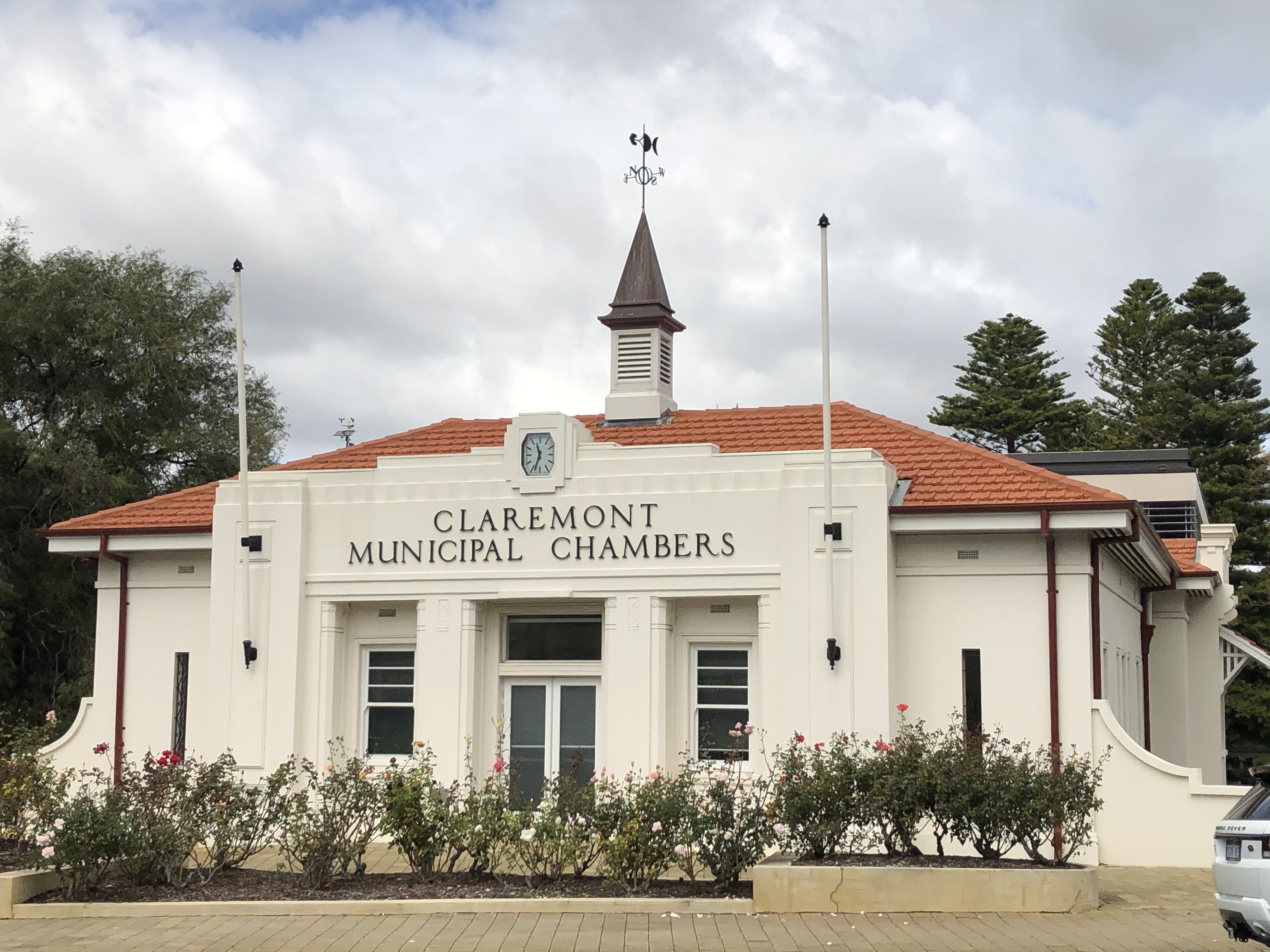 Claremont Municipal Chambers - Stirling Highway, Claremont, Western Australia